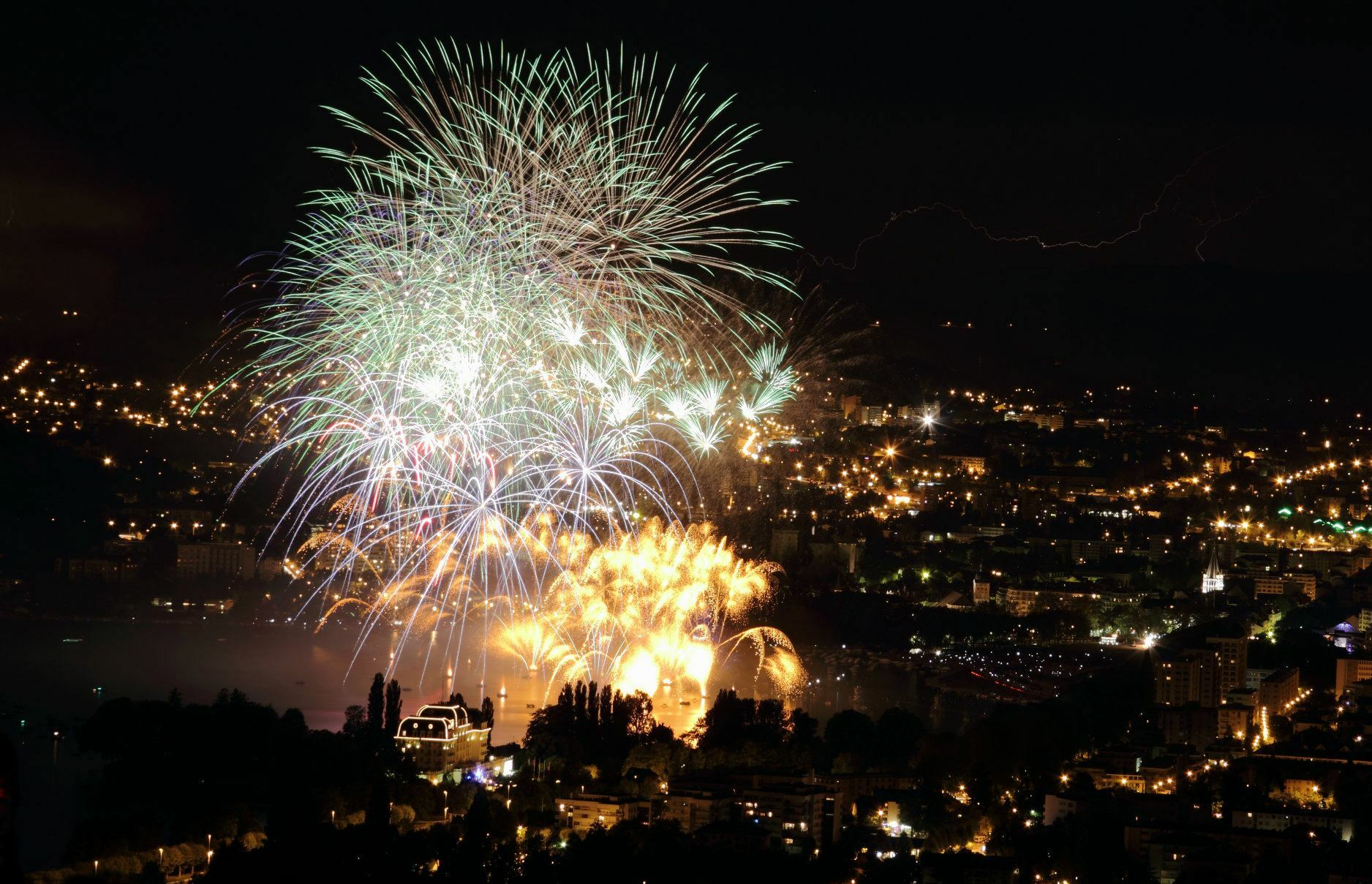 Fireworks above lac d'Annecy lake during the fête du lac festival, in August 2012.